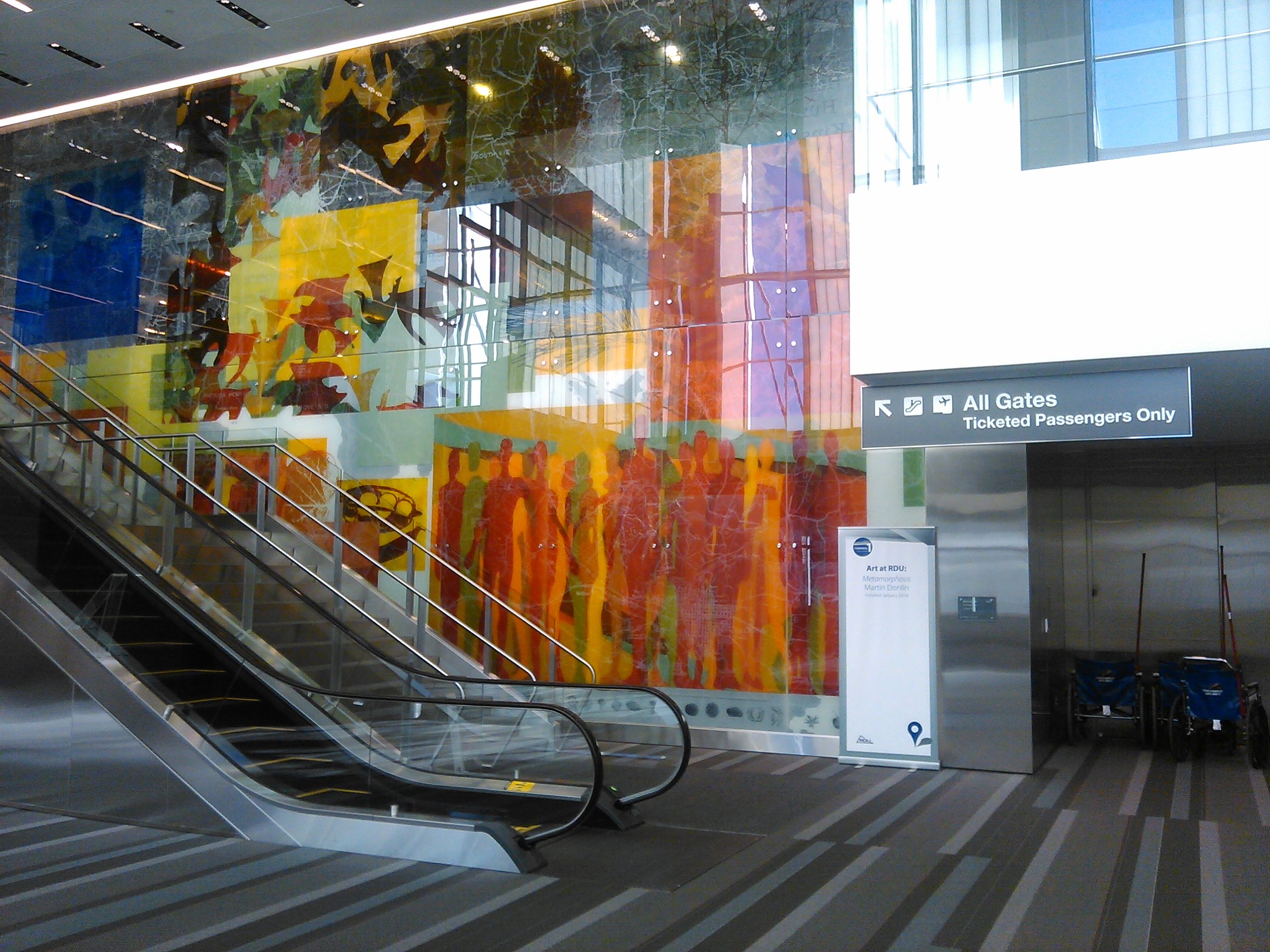 Terminal 1 at RDU Airport